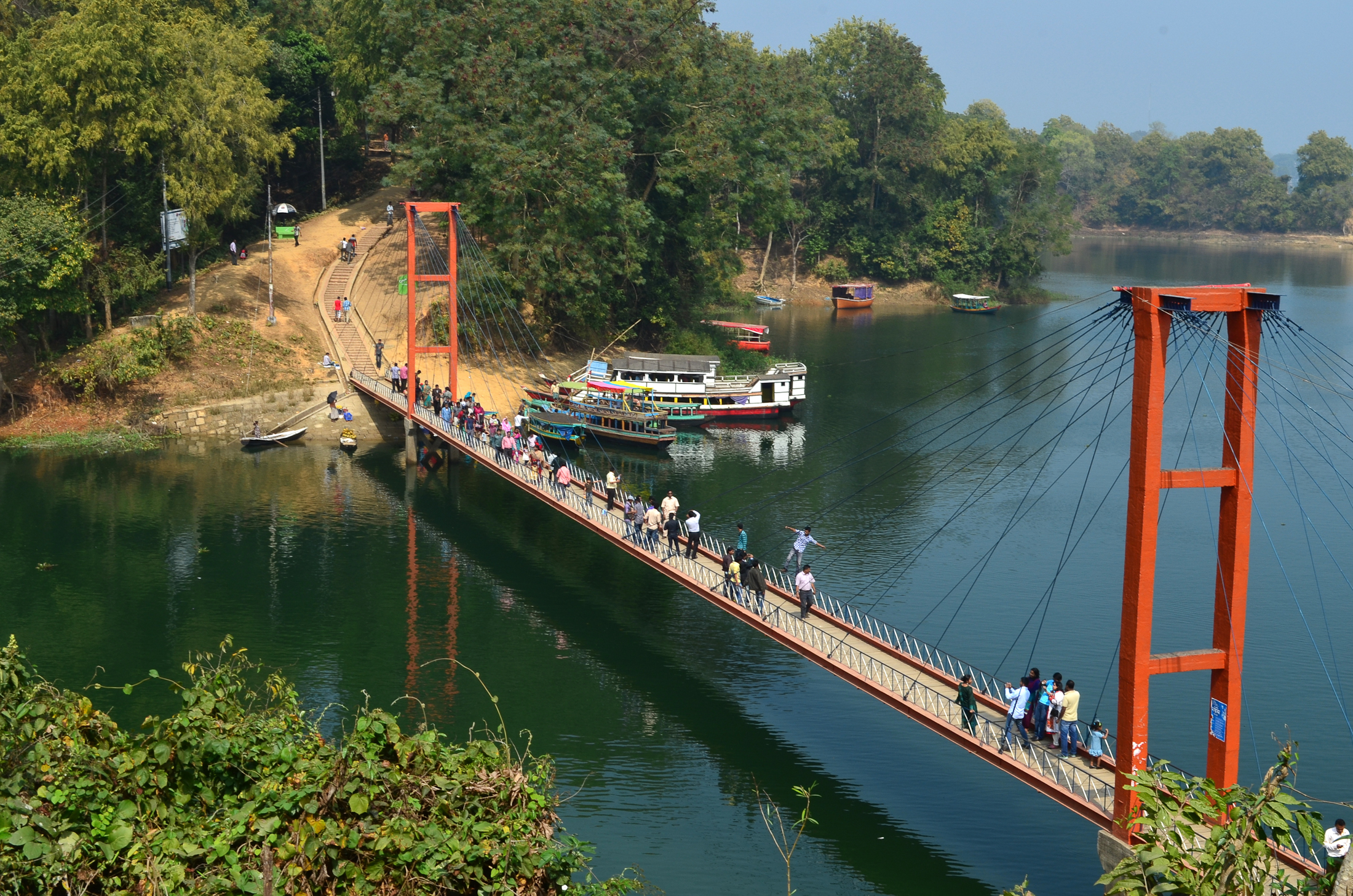 Hanging Bridge, Kaptai Lake, Rangamati, Chittagong.